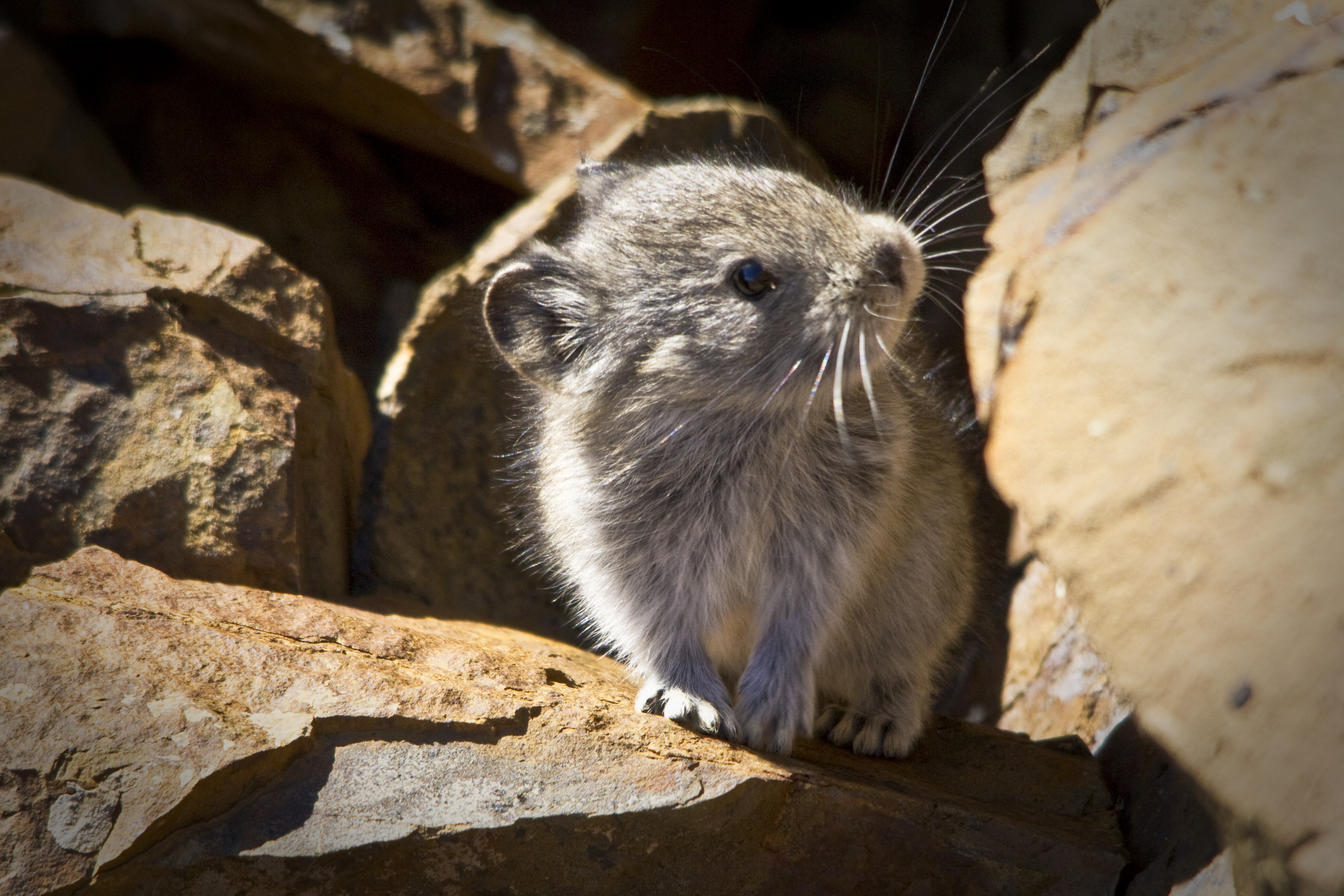 Collared Pika (Ochotona collaris), Denali National Park